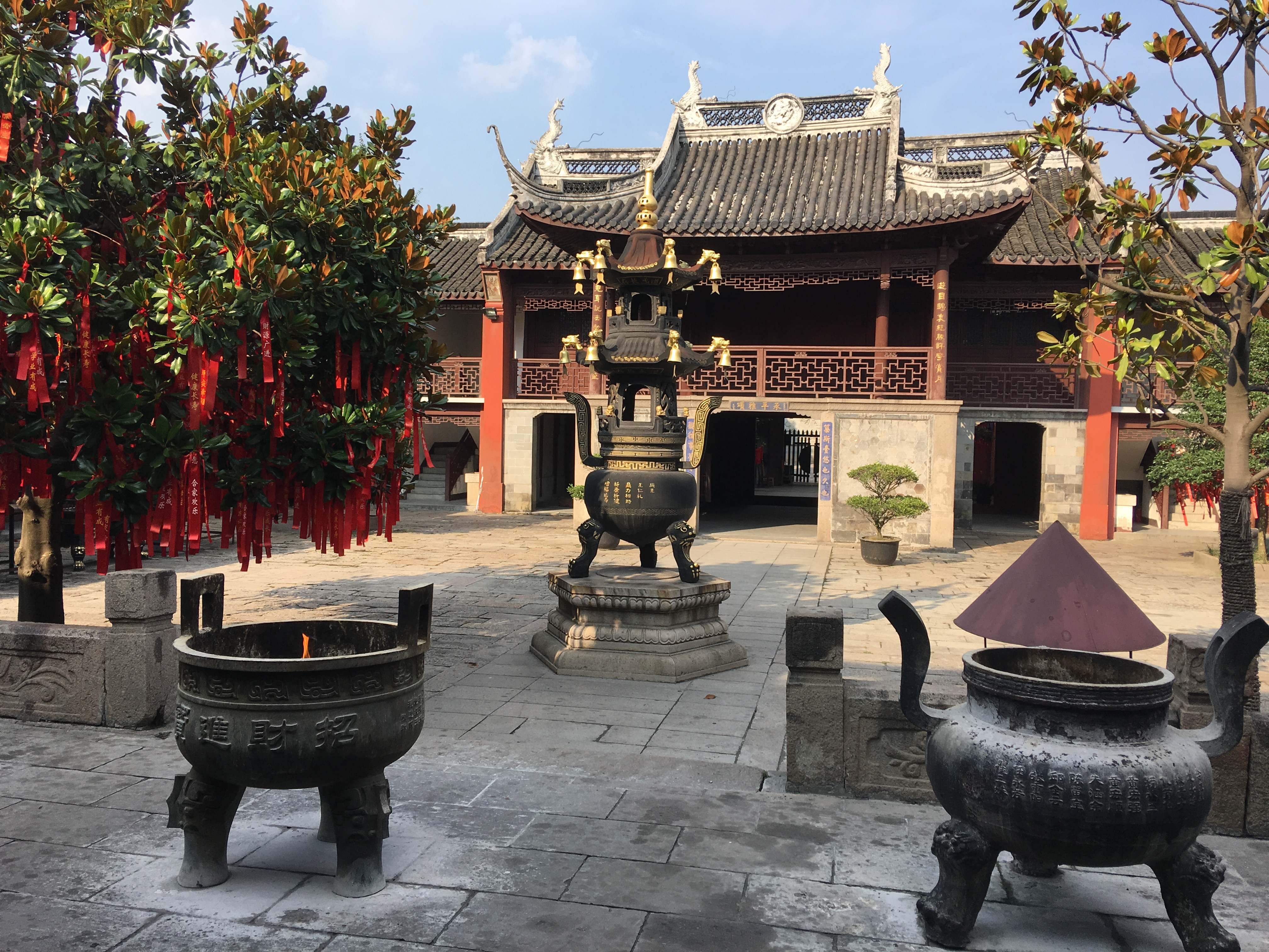 The "Chenghuang Miao" is the City God temple of old Zhujiajiao, west of Shanghai.